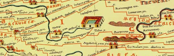 Partial view of the Peutinger table representing the Roman road from Reims to Metz